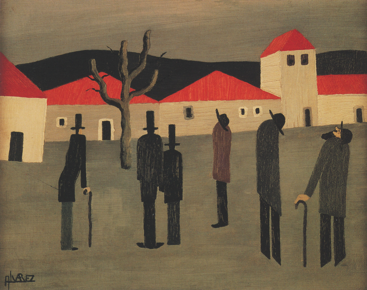 Houses and Figures from a Dream